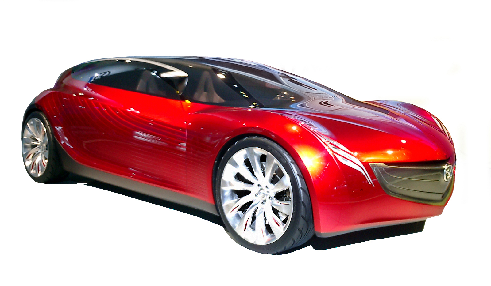 A Mazda Ryuga at the Detroit, Michigan Auto Show in 2007, background removed.